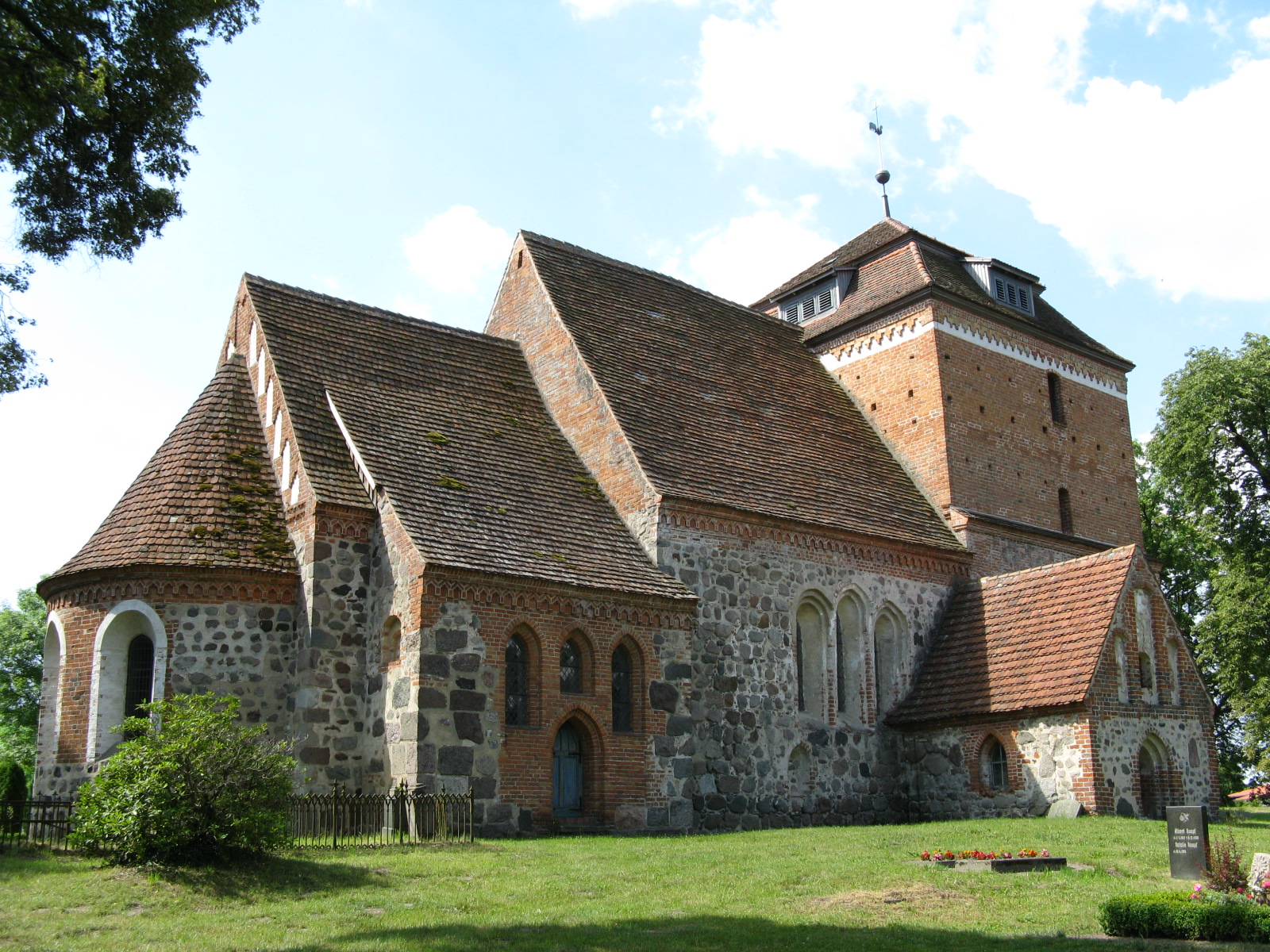 Church in Bellin, disctrict Güstrow, Mecklenburg-Vorpommern, Germany